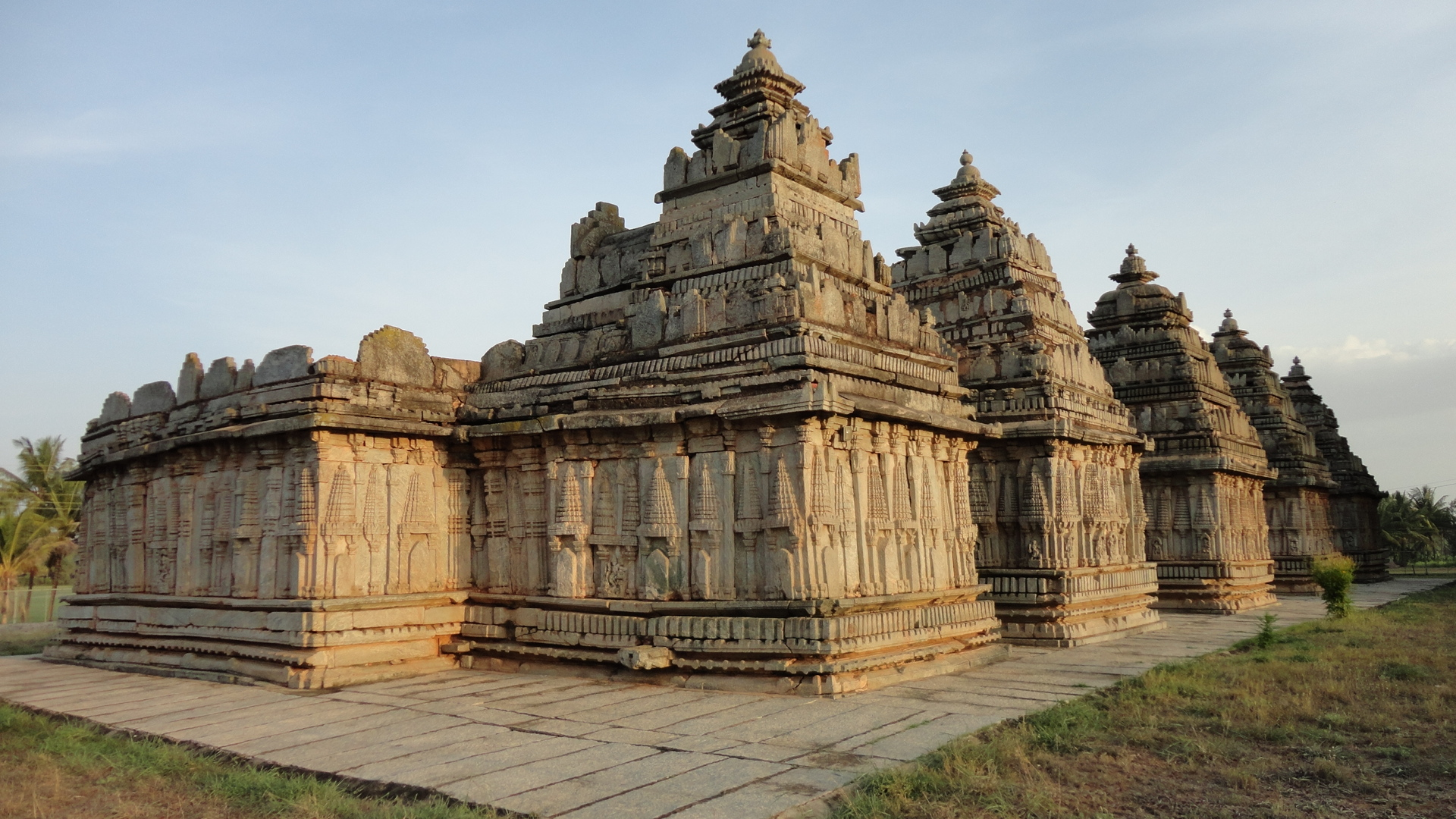 This photo depicts the north-western part of the Panchlingeshvara temple, Govindanahalli, Mandya, Karnataka. The five sanctum sanctorum (domes) of the back part due to which it is called Panchlingeshvara (Panch = Five), is the main attraction in this photo. All the five domes have the same dimensions, design and carvings.